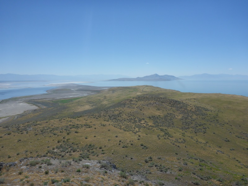 View from Fremont Island high point looking south to Antelope Island.